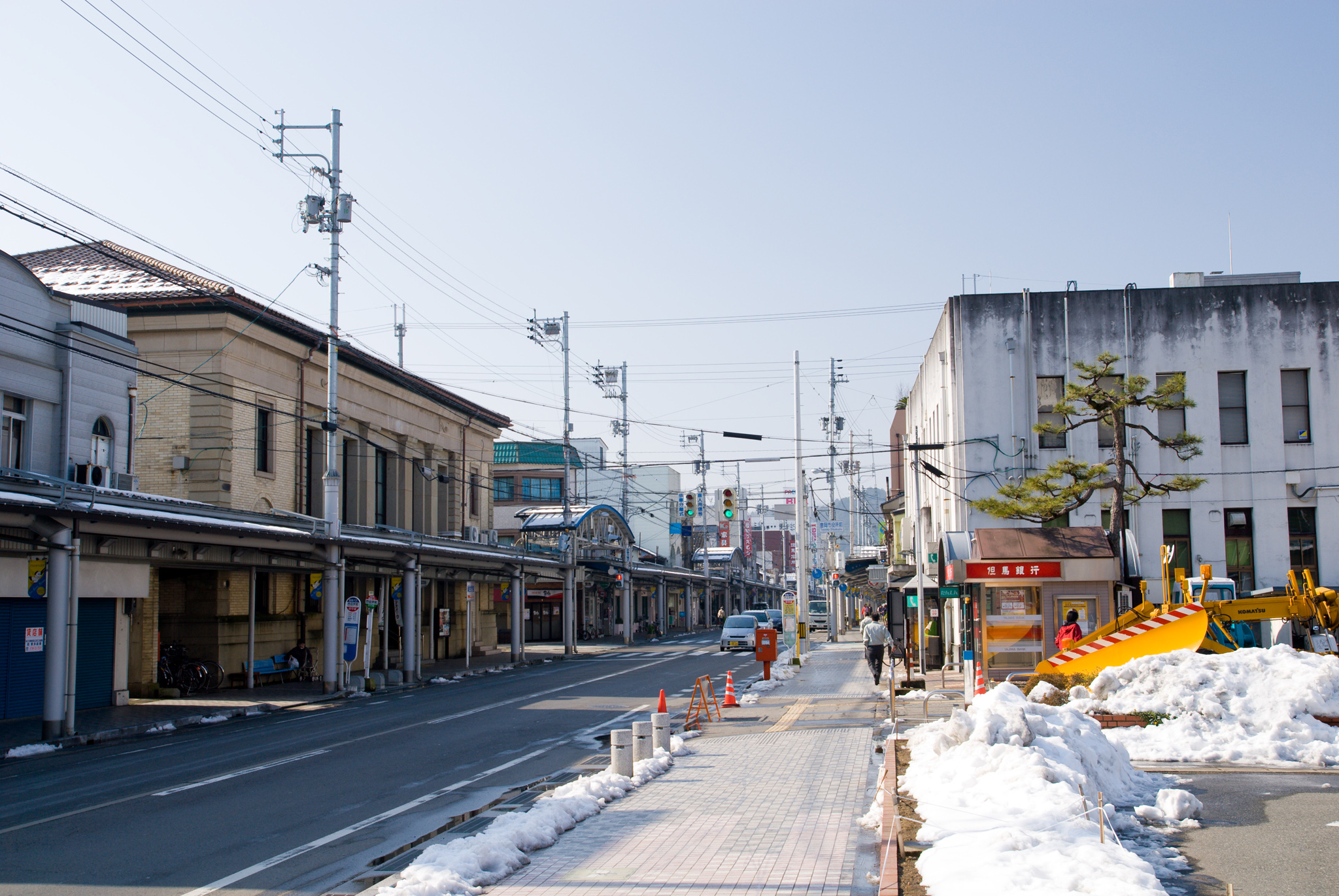 This is a shopping street in Toyooka Hyogo.